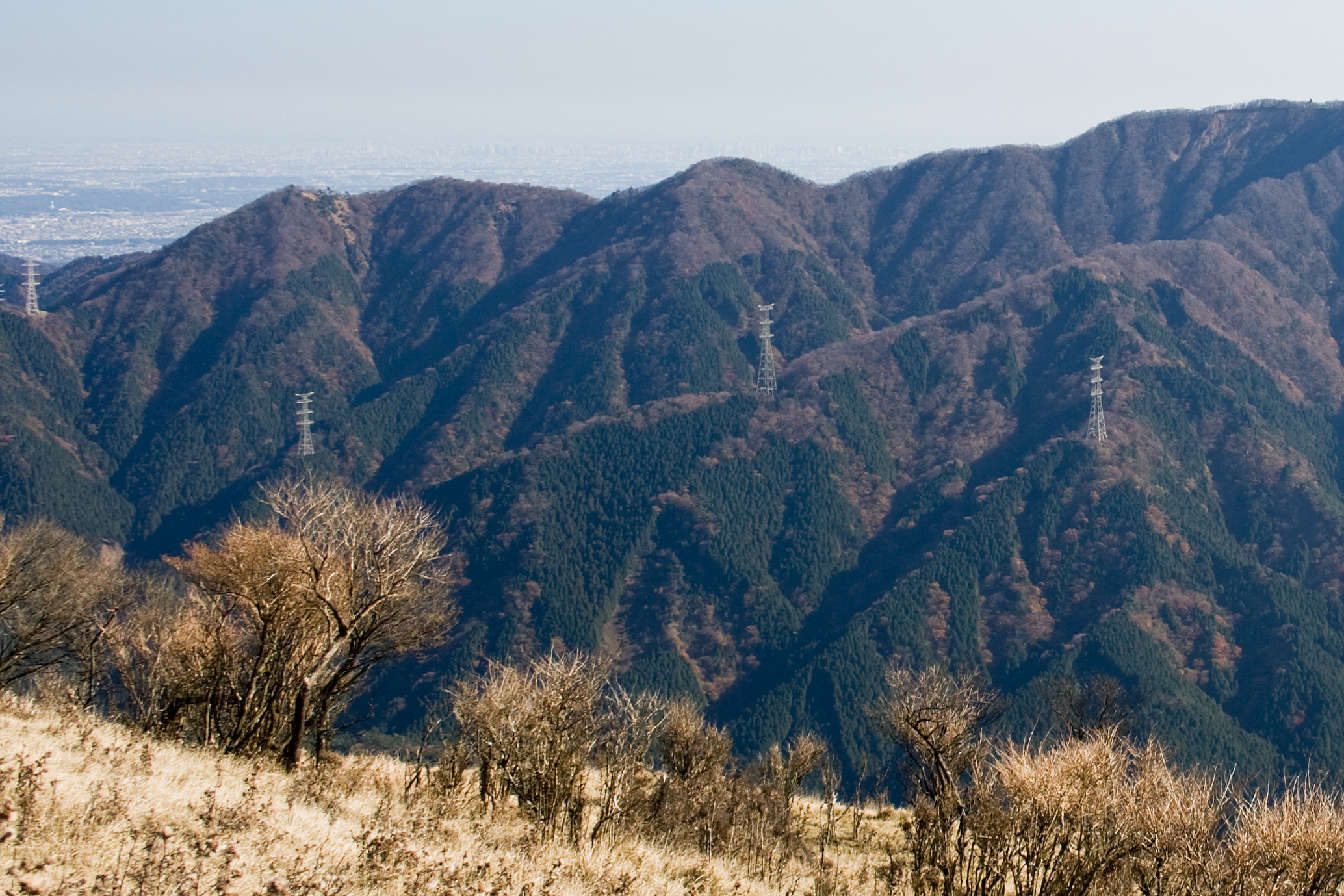 Mount Nishizawanoatama as seen from Mount Sannoto in Kanagawa Prefecture, Japan